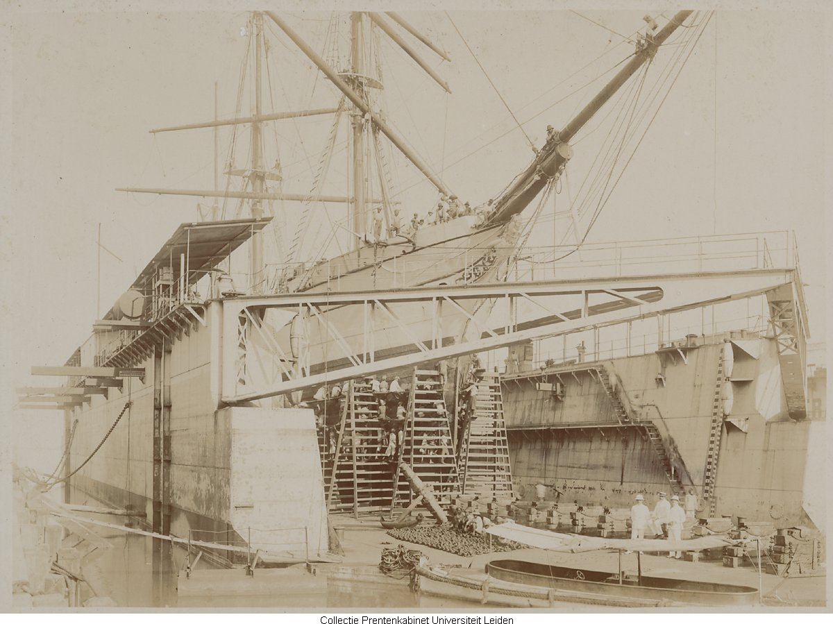 The barque Nest (1868) on Surabaya Dock of 3,500 tons. In May 1917 ( the Dry dock company Surabaya readied the old barque Nest to make a trip to the Netherlands. The trip temporarily ended in Durban after she got hit by a storm. In 1919 she arrived in the Netherlands. The whole affair was surrounded by (rumors off?) fraud and got much attention in the media.